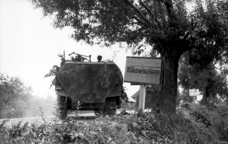 Information added by Wikimedia users.